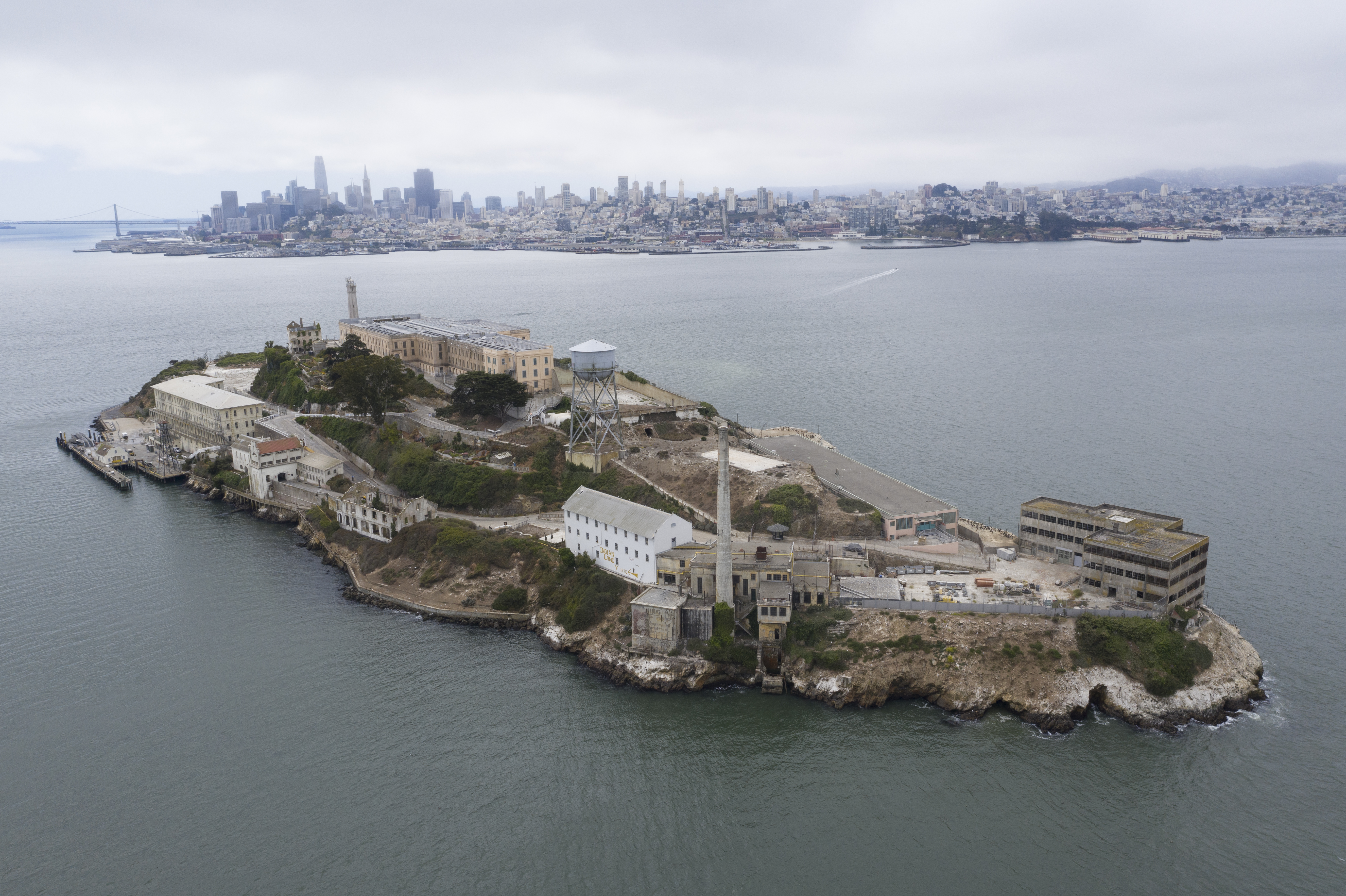 Alcatraz in 2020 by Christopher Michel